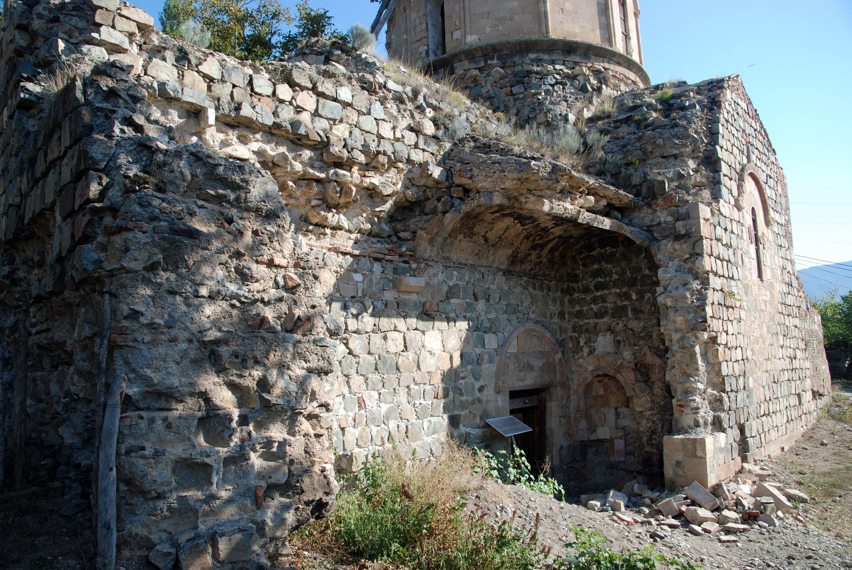 Doliskana church in Hamamlıköy village, from southwest